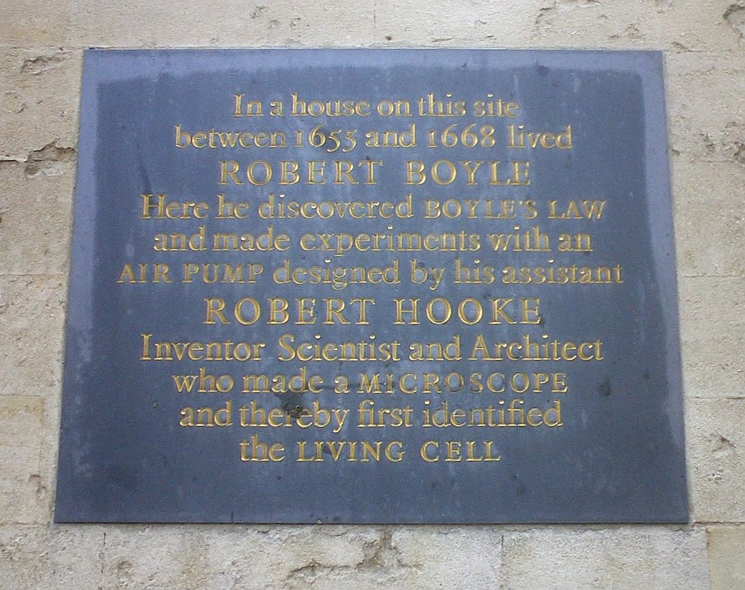 The Boyle-Hooke plaque, University College, High Street, Oxford, England. Photograph by Jonathan Bowen.